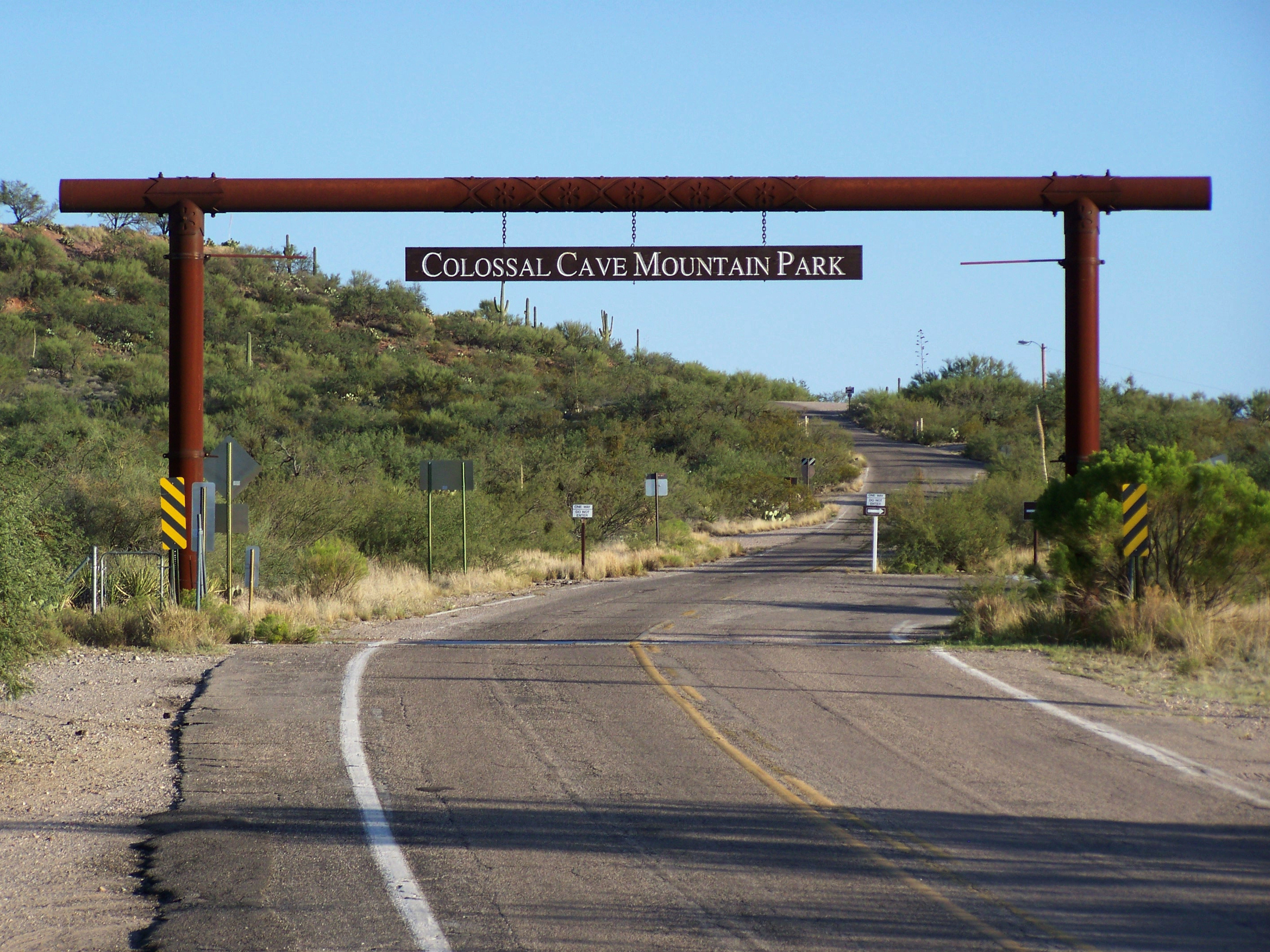 This is the entry to Colossal Cave Mountain Park, at the end of Old Spanish Trail, in Tucson, AZ.